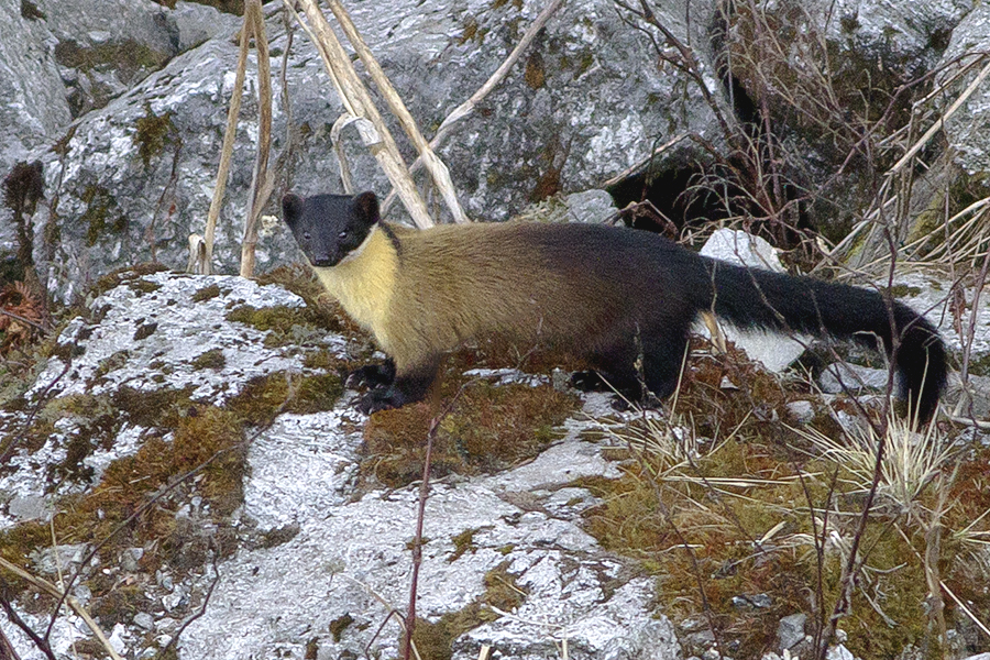 The species Yellow-throated Marten had been photographed from Pangolakha Wildlife Sanctuary in East Sikkim, India on 26.03.2016.